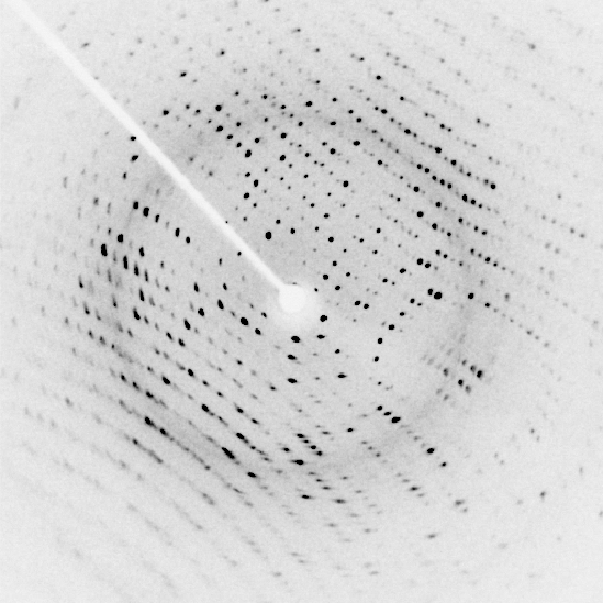 Diffraction image of protein crystal. Hen egg lysozyme, P43212, a=b 7.872 nm, c 3.683 nm, α=β=γ 90°.